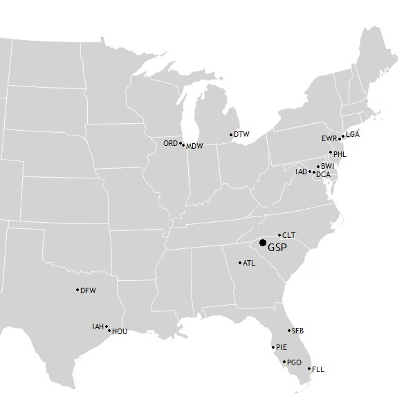 Non-stop destinations served from Greenville-Spartanburg International Airport